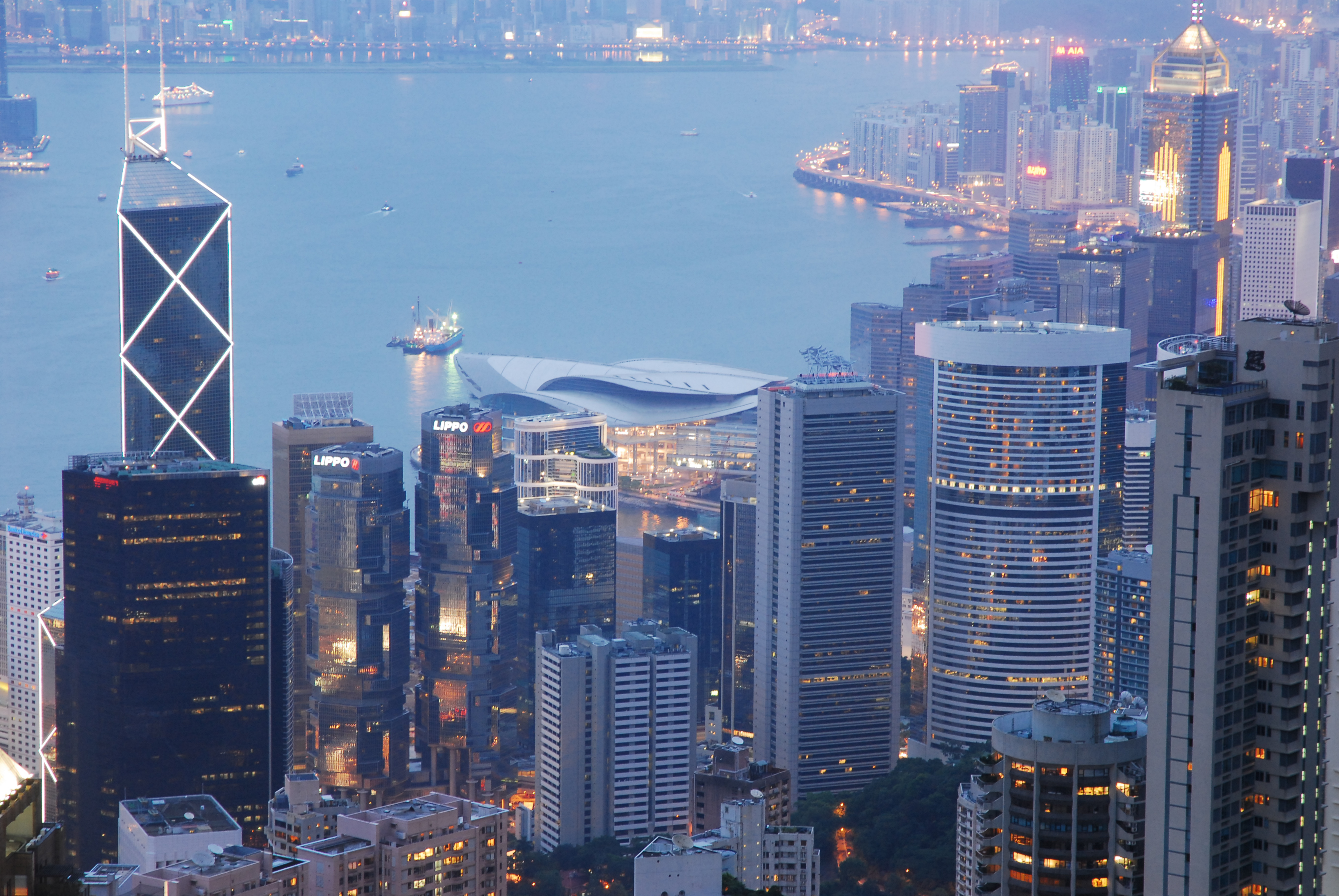 Aerial view of Hong Kong Central district. Hong Kong, China, East Asia.